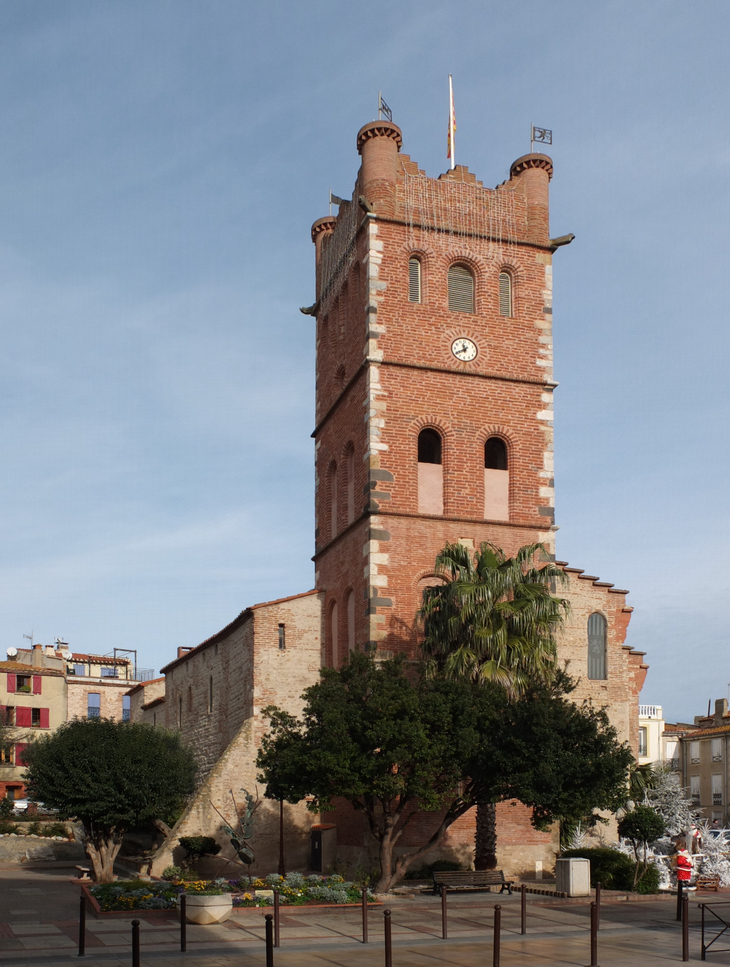 Église Saint-Jacques at Canet-en-Roussillon, France (view S)